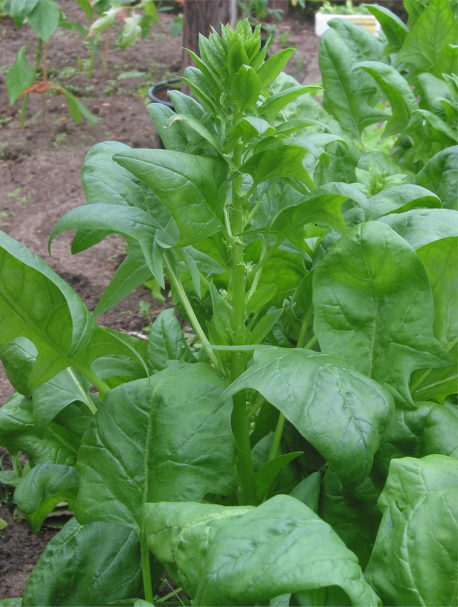 Spinacia oleracea female plant